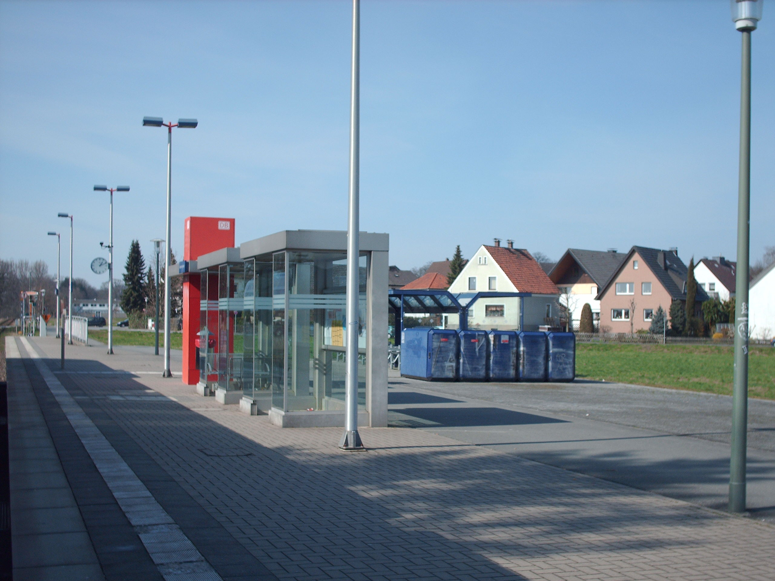 Quelle-Kupferheide station, Bielefeld, Germany check usage